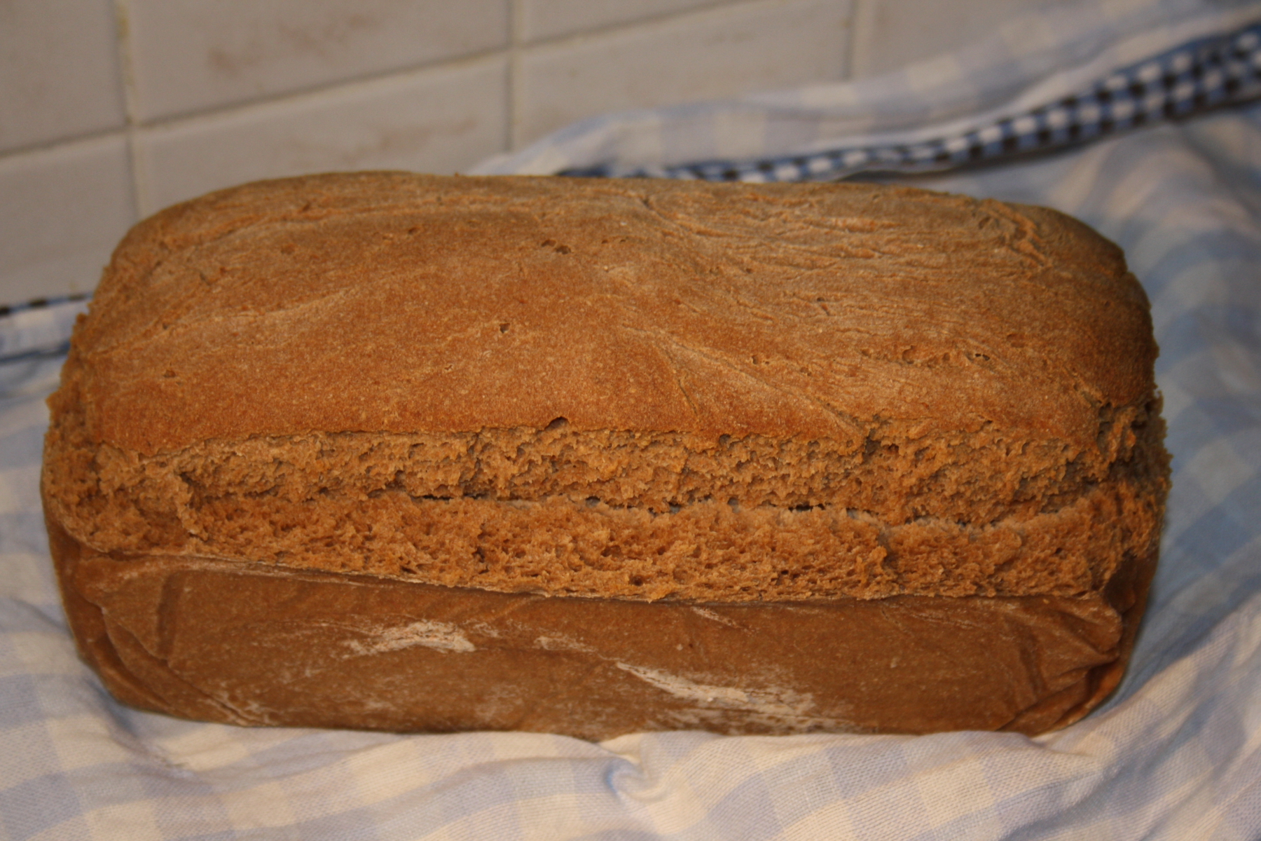 Bread